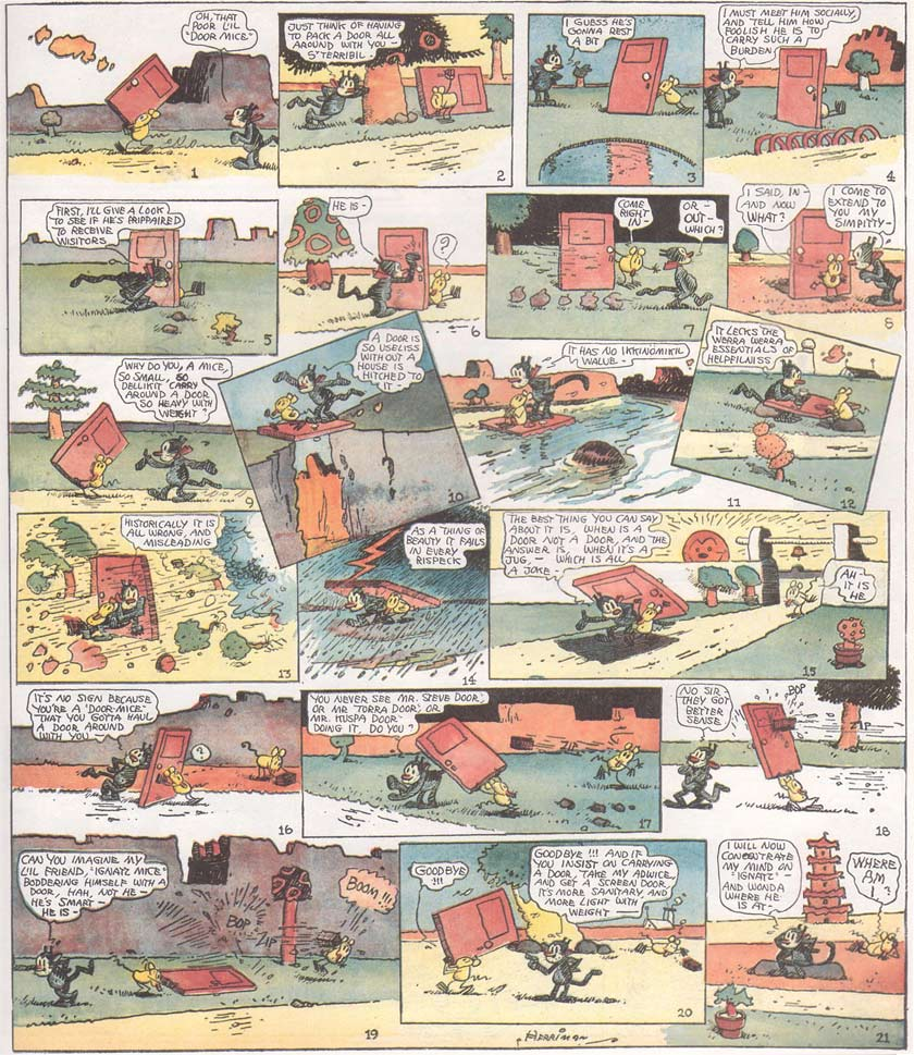 A rare full-page Saturday Krazy Kat comic in which Krazy tries to understand why Door Mouse (a minor character from the early strips) is carrying a door. Krazy expounds upon the door as a useless object while Door Mouse uses it as a bridge, a raft, and a table, and to protect them from the elements. Ultimately it is used to block one of Ignatz's bricks from hitting Krazy. Click the image to view it full-size. Note: When Krazy Kat says "The best thing you can say about it is, when is a door not a door, and the answer is, when it's a jug -- which is all a joke" he is misquoting a popular American joke. The actual answer is "when it's ajar". Note also that in the lower-left panel (#19) Krazy is actually leaning not against a physical object but rather the edge of the panel.